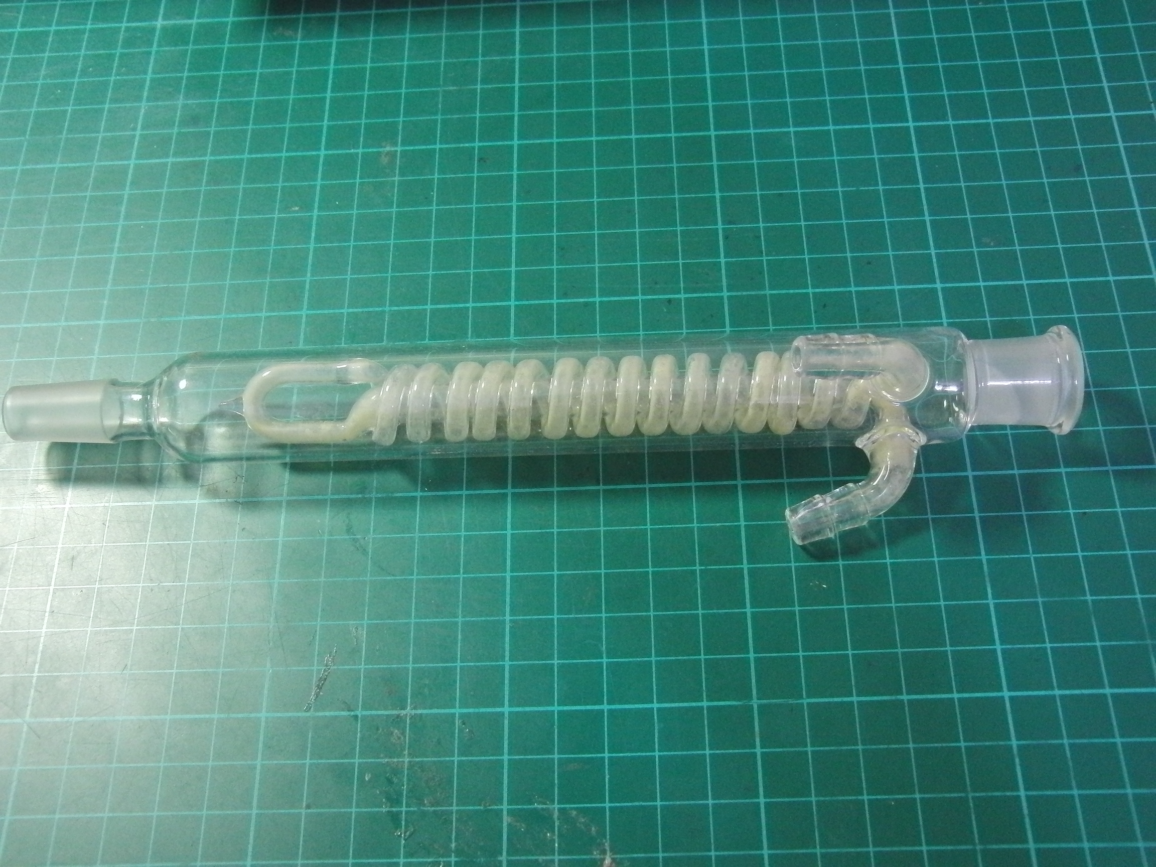 Condenser